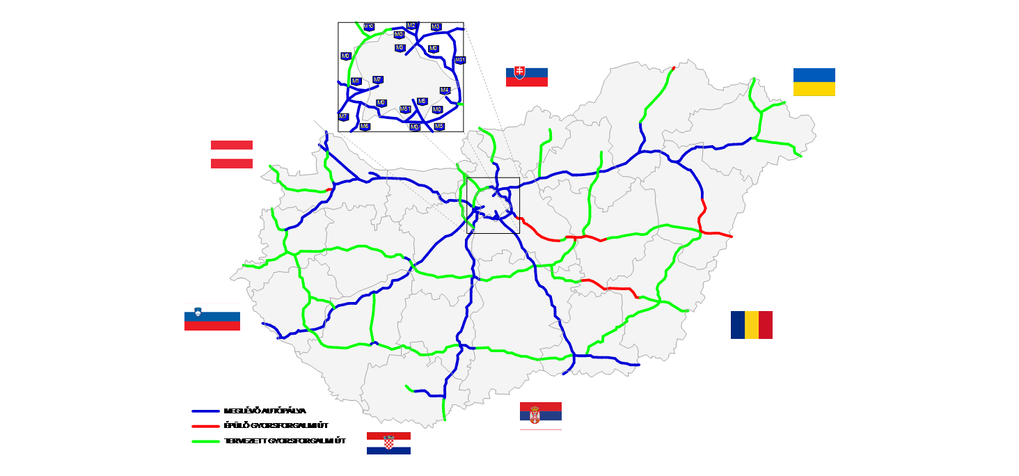 Hungary's expressways under construction 10.05. 2017